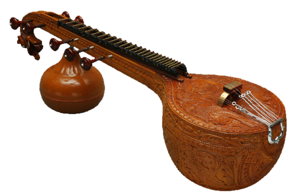 SVG image of a Veena created in Inkscape from an old photograph from personal collection